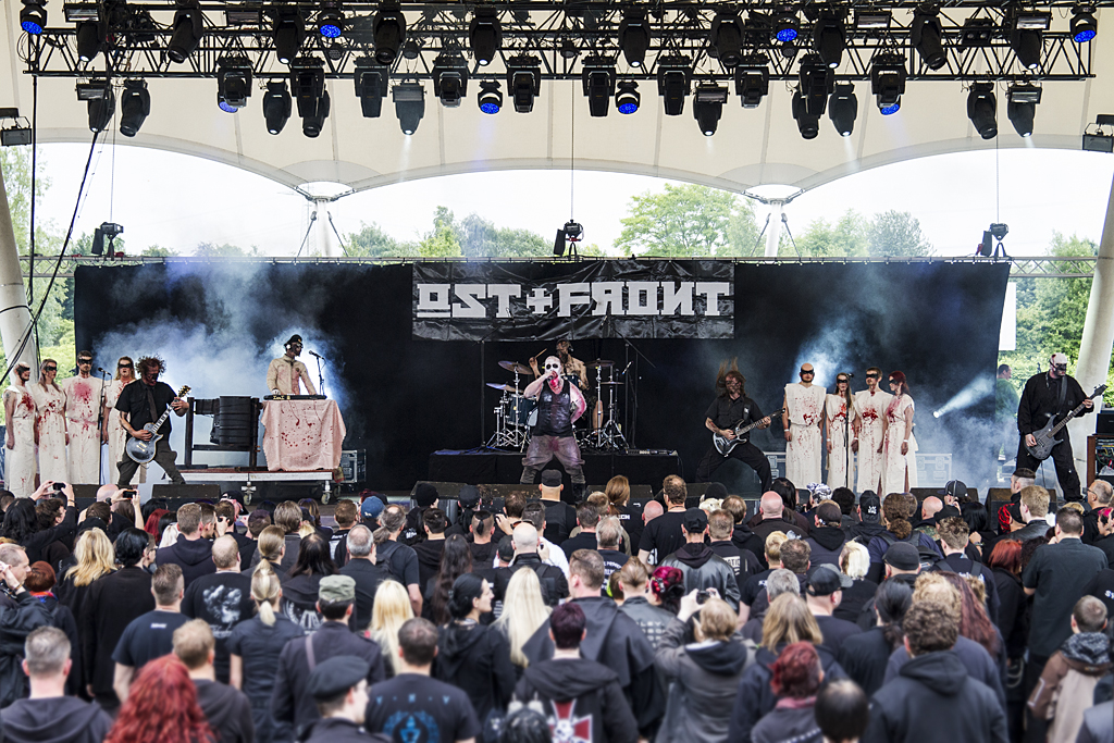 Ost+Front, photographed at the Blackfield Festival 2013 in Gelsenkirchen, Germany